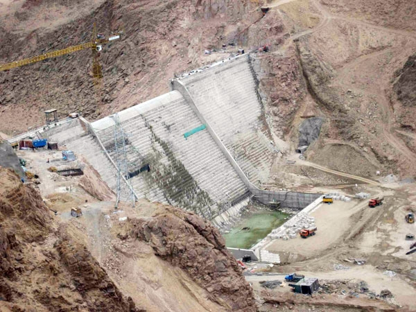 Tashir power plants in Mongolia on the river Zavkhan